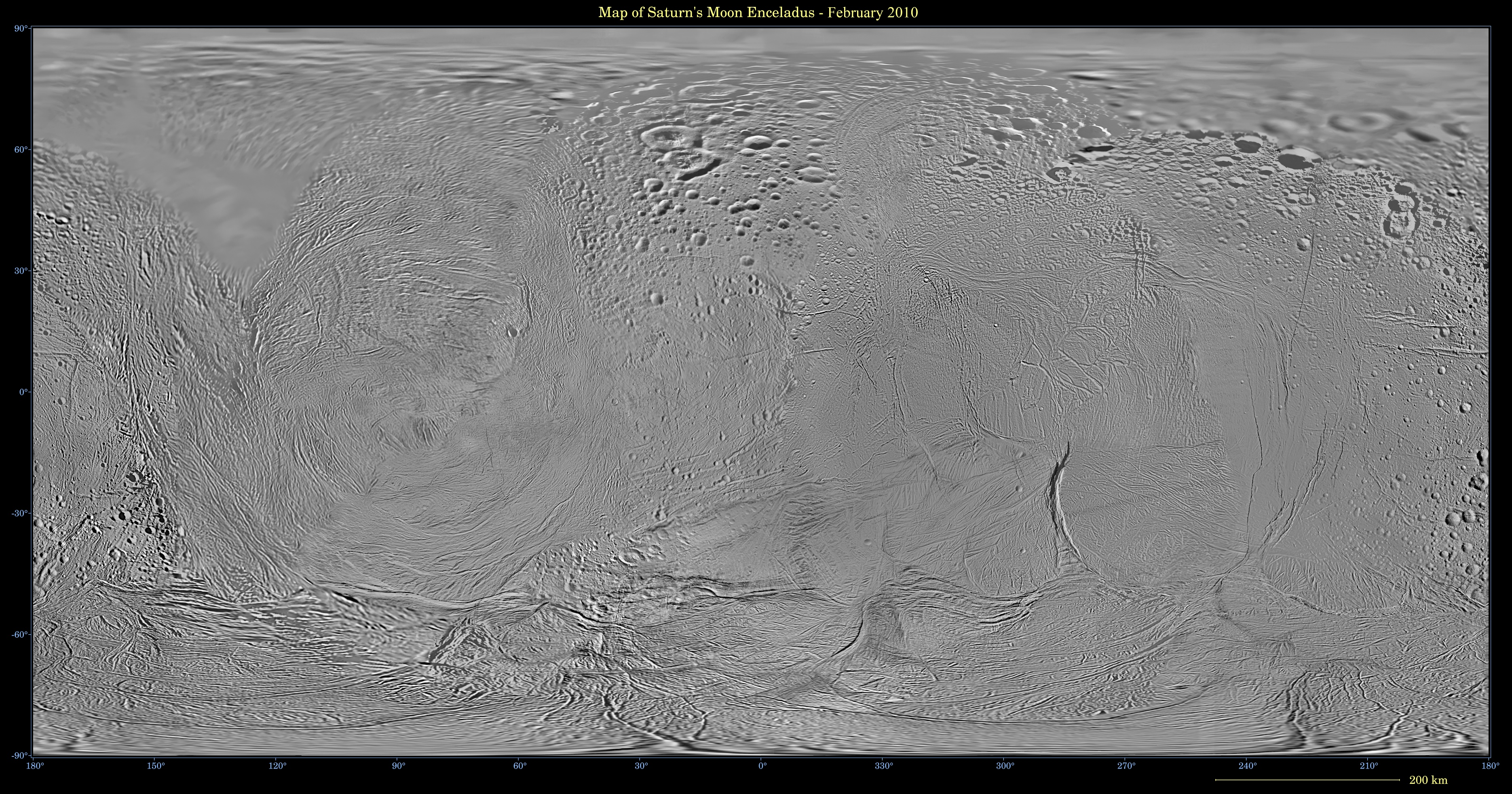 This mosaic shows an updated global map of Saturn's icy moon Enceladus, created using images taken during Cassini spacecraft flybys. The map incorporates new images taken during flybys in October and November 2009. This map is an update to the version released in October 2009 (see PIA11680). Like other recent Enceladus global maps, this mosaic was shifted by 3.5 degrees to the west, compared to 2006 versions, to be consistent with the International Astronomical Union longitude definition for Enceladus. The so-called "tiger stripe" features that have captivated Cassini scientists can be seen distorted by the projection method in the lower middle left and lower middle right of the image. This map contains just one image from NASA's Voyager 2 spacecraft, which visited Enceladus more than 25 years ago. That image fills in the top left of the map from 90 degrees north down to as low as 50 degrees north in places. Other parts of the map include low-resolution Cassini Imaging Science Subsystem images. The map is an equidistant (simple cylindrical) projection and has a scale of 110 meters (360 feet) per pixel at the equator. The mean radius of Enceladus used for projection of this map is 252 kilometers (157 miles). The Cassini Equinox Mission is a joint United States and European endeavor. The Jet Propulsion Laboratory, a division of the California Institute of Technology in Pasadena, manages the mission for NASA's Science Mission Directorate, Washington, D.C. The Cassini orbiter was designed, developed and assembled at JPL. The imaging team consists of scientists from the US, England, France, and Germany. The imaging operations center and team lead (Dr. C. Porco) are based at the Space Science Institute in Boulder, Colo.